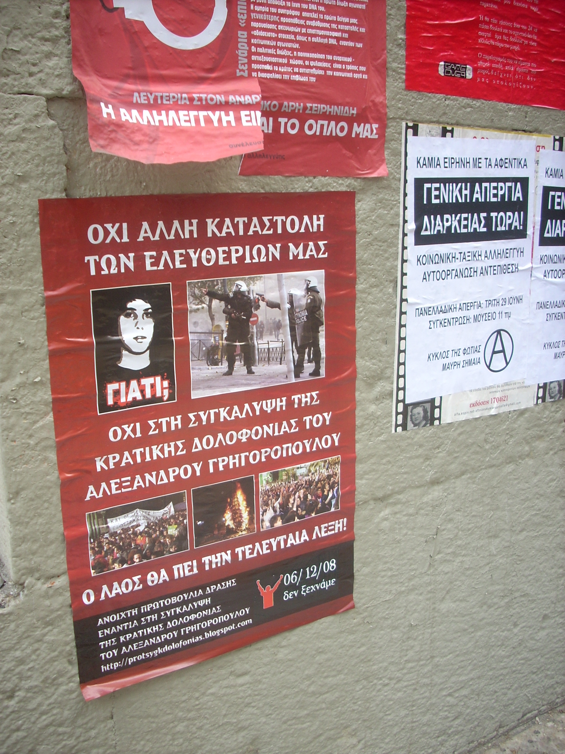 Anarchist posters – Sturnari Street in Athens (Greece). Aleksandros Grigoropoulos as icon